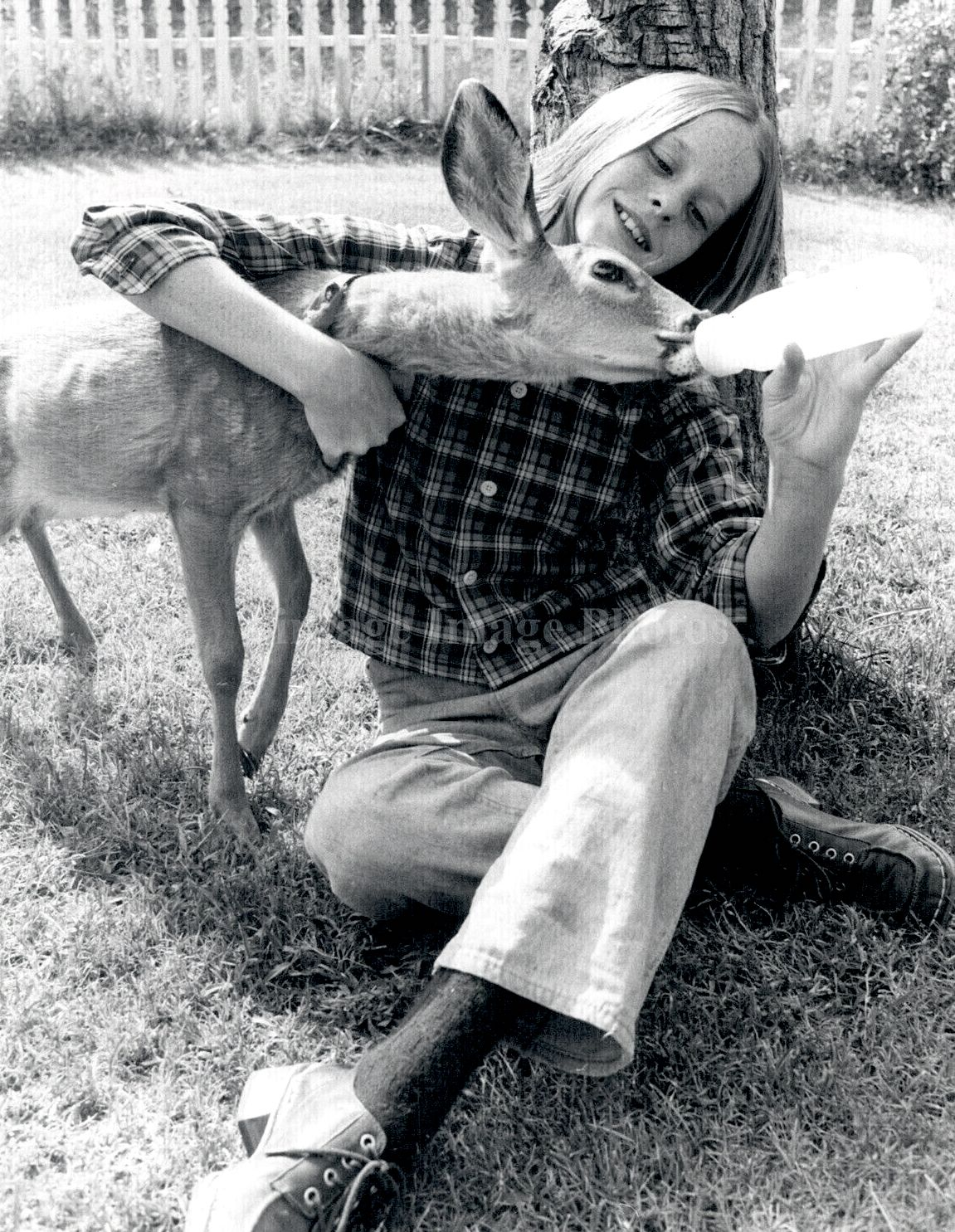 Mary McDonough in a 1973 press photo for The Waltons